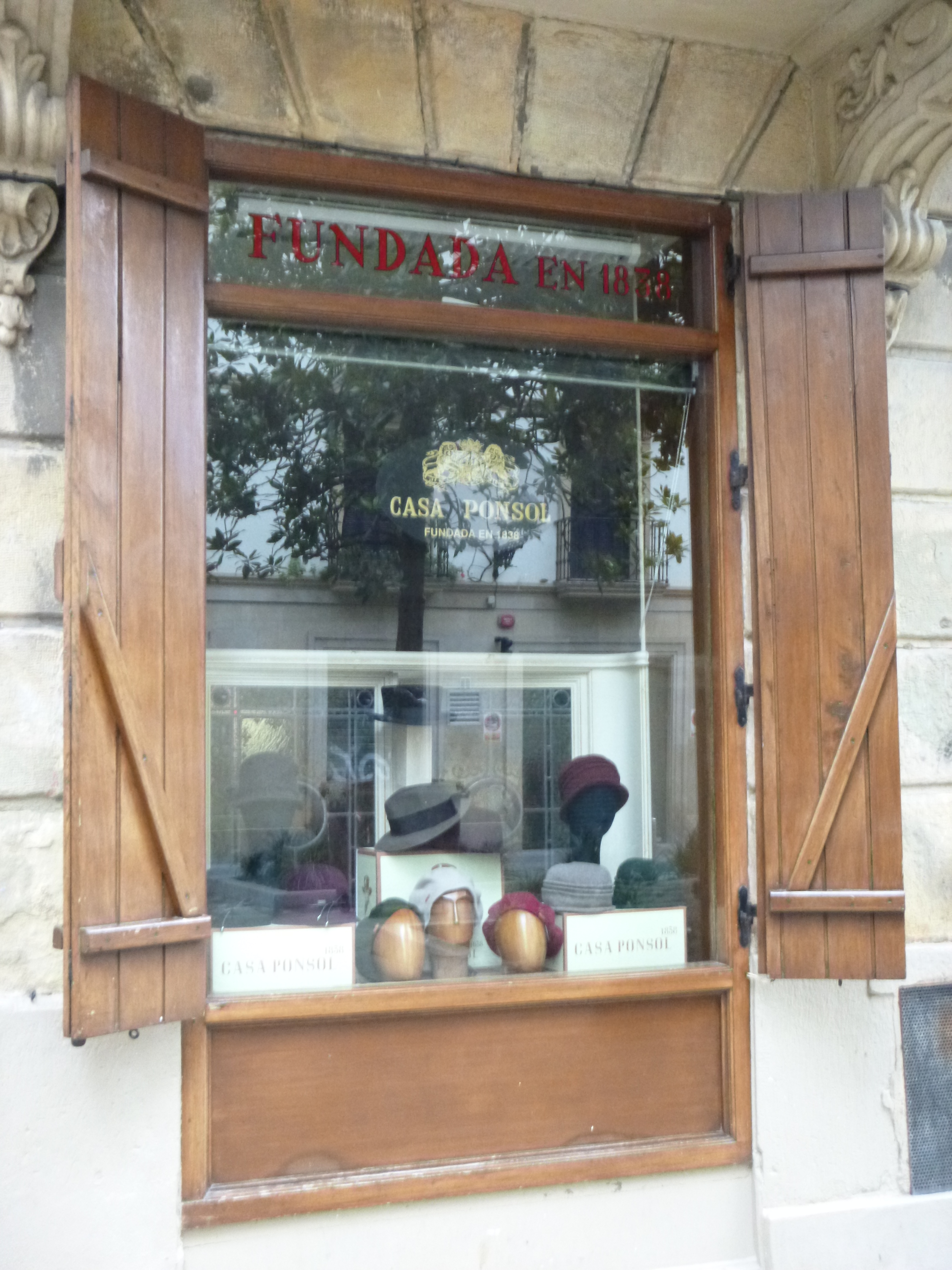 Ponsol